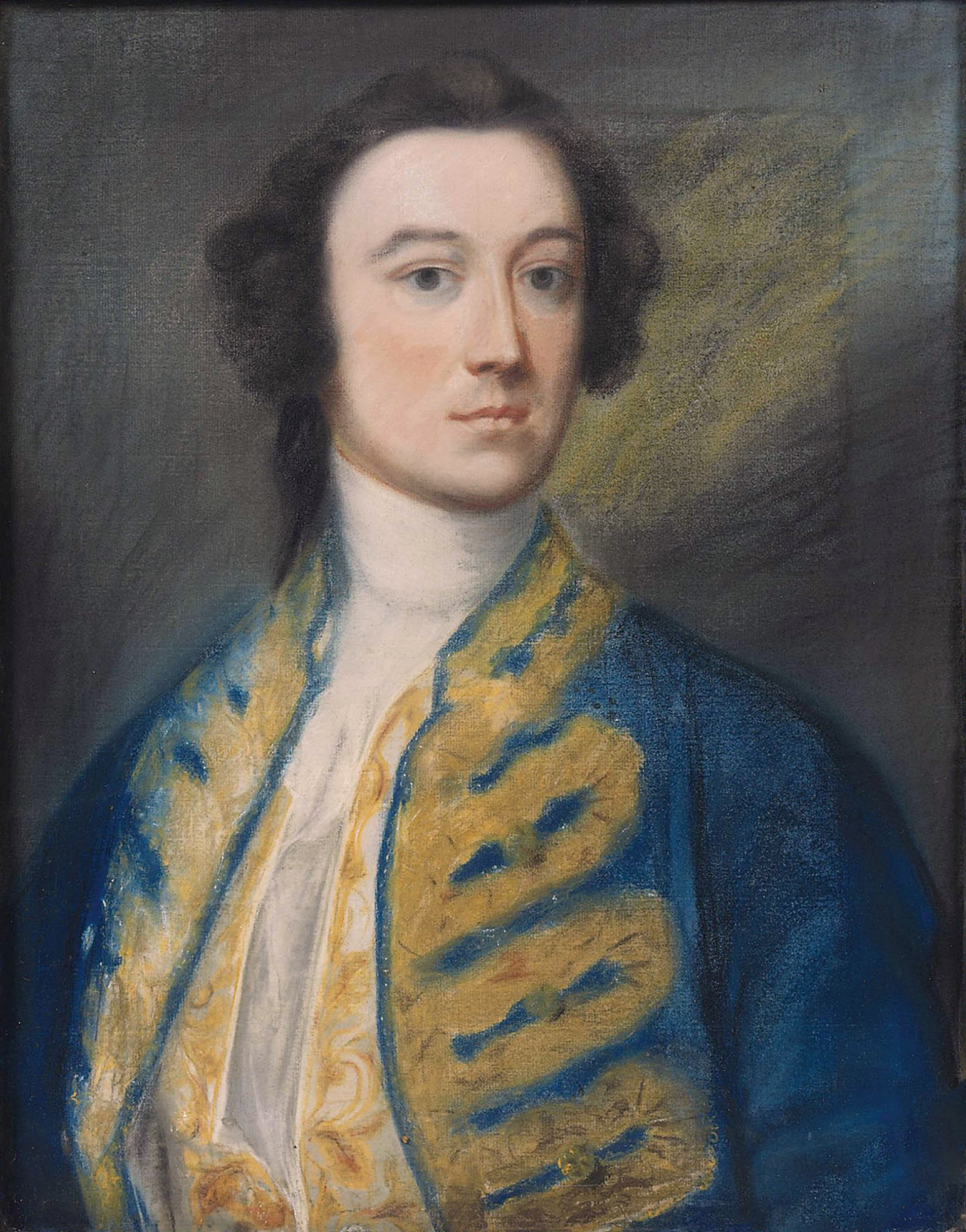 William Pole of Ballyfin (d. 1781) pastel 58.4 x 45.7 cm